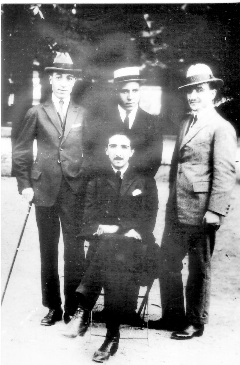 Azerbaijani students Miri bəy Vəzirov, İskəndər Rzazadə, Mustafa bəy Vəkilov in Paris, 1920.